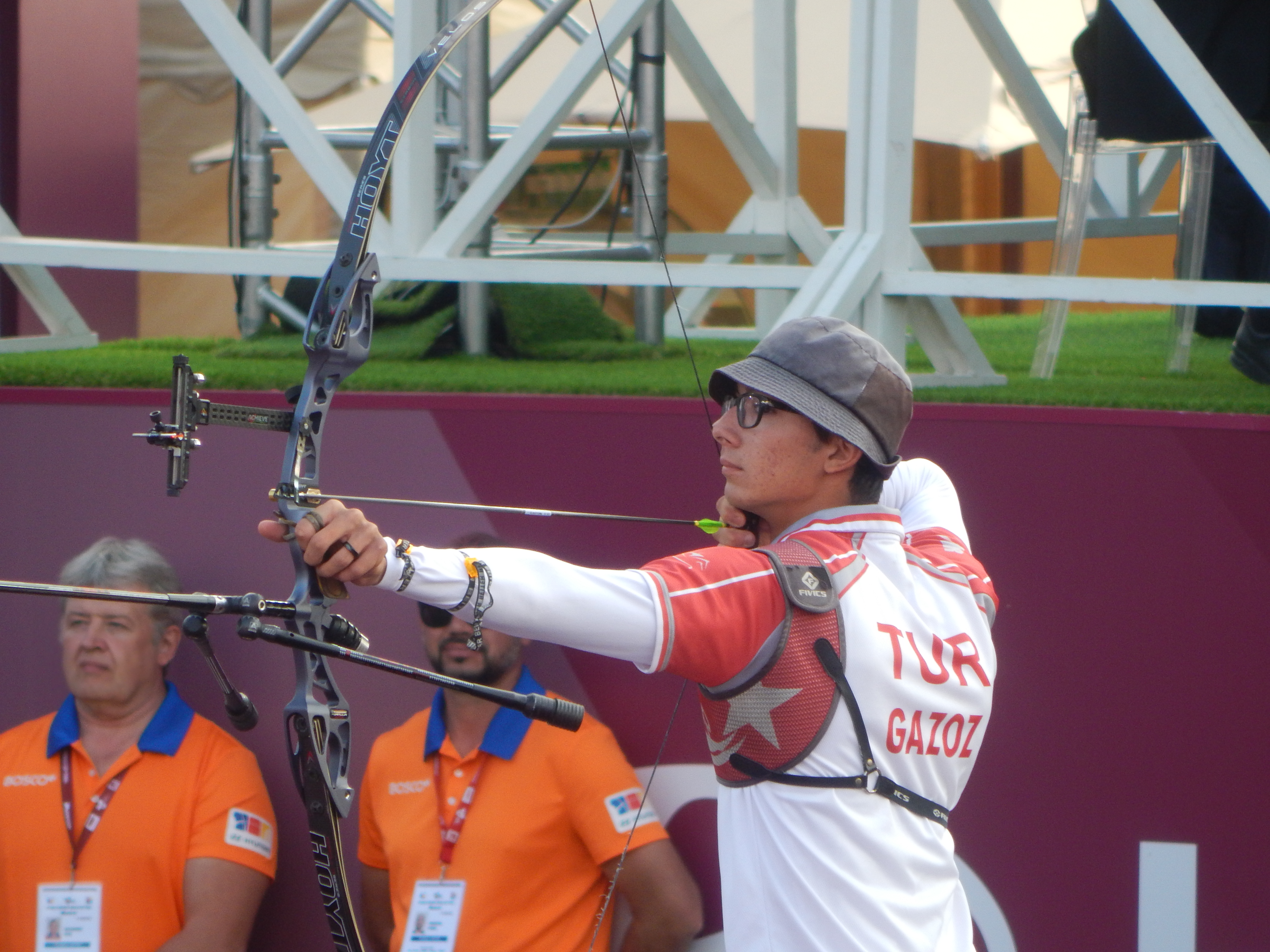 2019 Archery World Cup Final in Moscow. Men's Recurve.